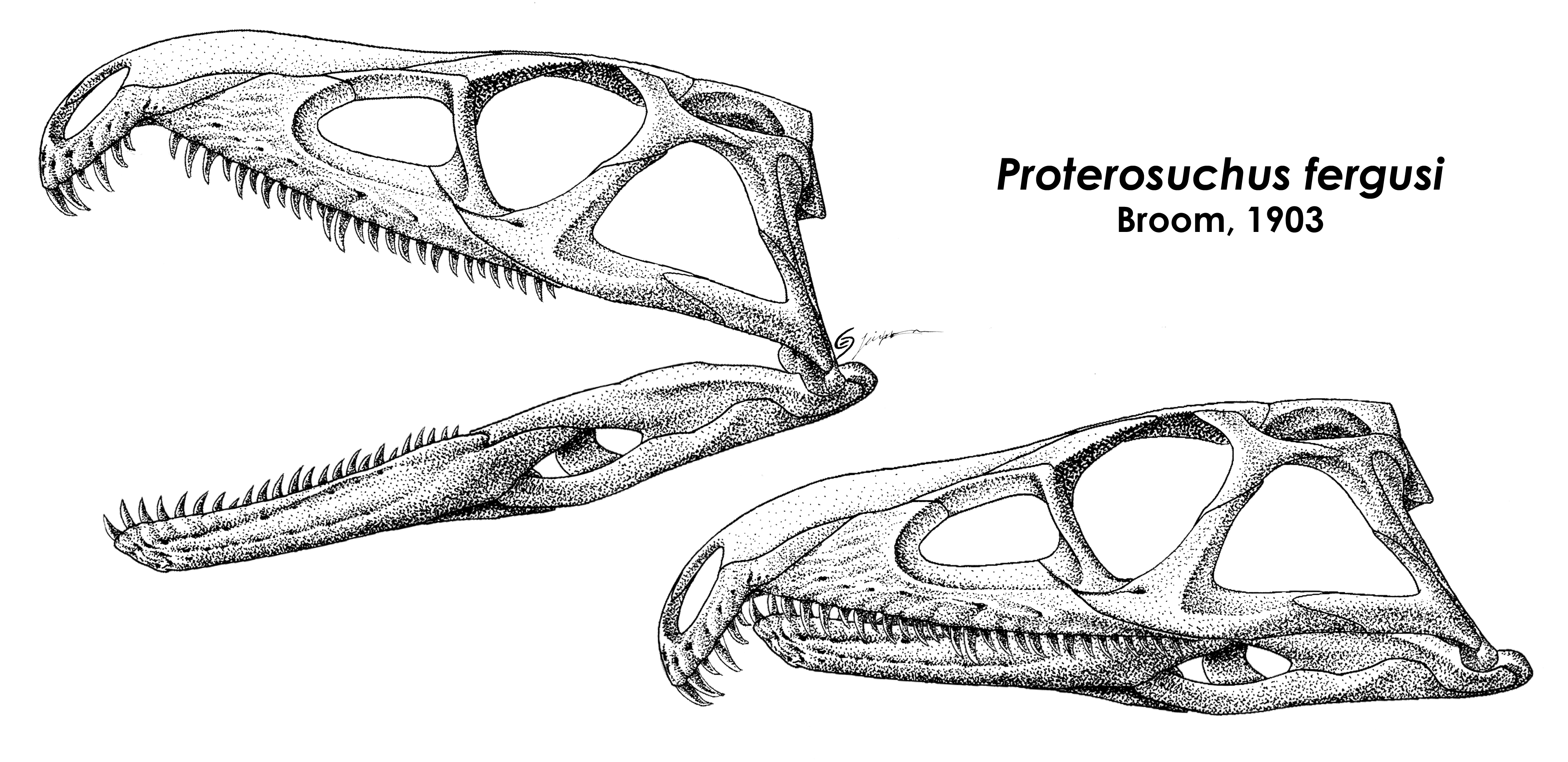 Skull of Proterosuchus fergusi Broom, 1903. Jaw in the open and closed positions, respectively.